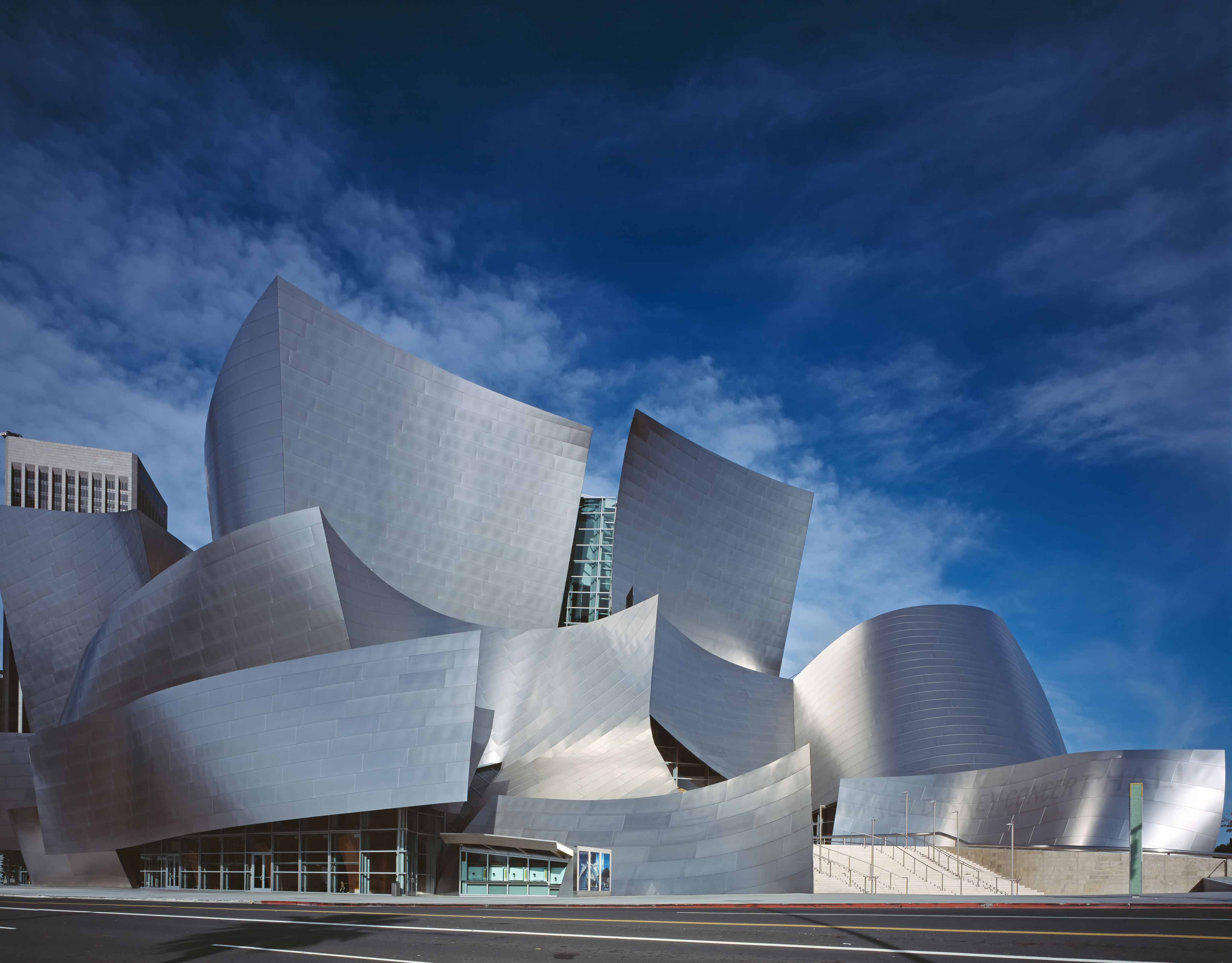 The Walt Disney Concert Hall, home to the Los Angeles Philharmonic, features an acoustically superior auditorium paneled in hardwood. The Disney family contributed more than $100 million to the project.